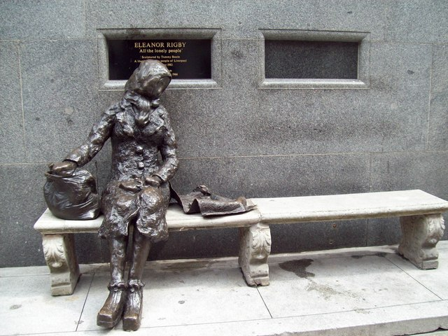 Eleanor Rigby This sculpture of Eleanor Rigby was sculpted and donated by Tommy Steele to the City of Liverpool, as a tribute to the Beatles. The statue is located in Stanley street.